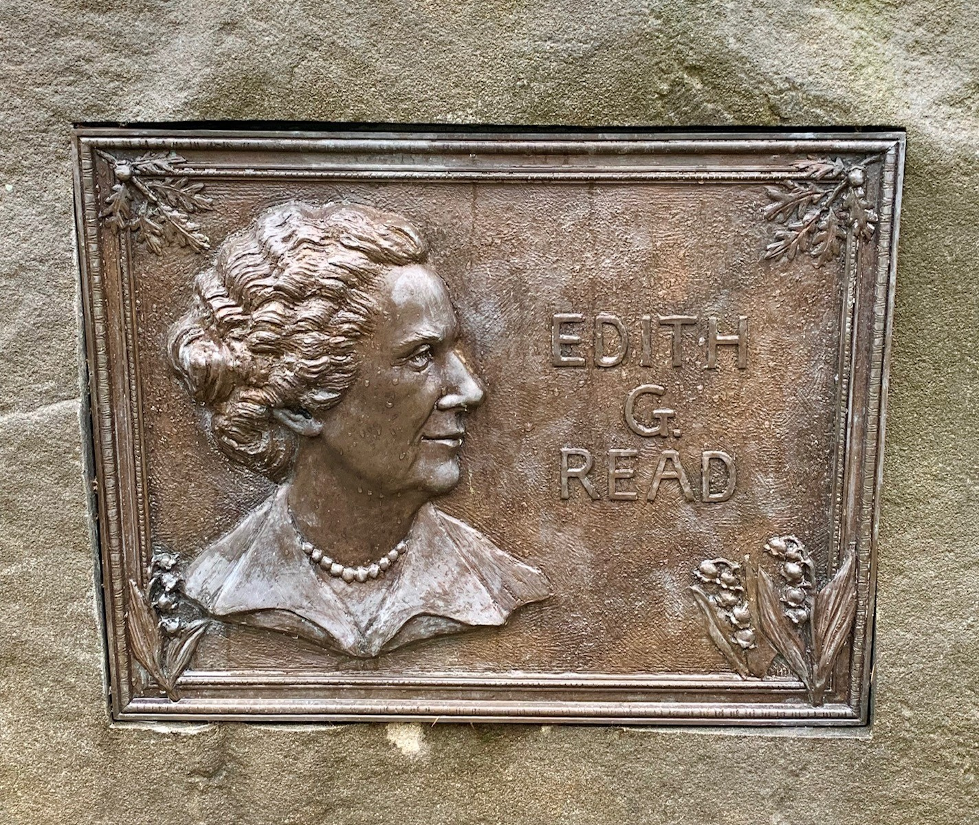 Photo of Edith Read plaque at Conservancy, Rye